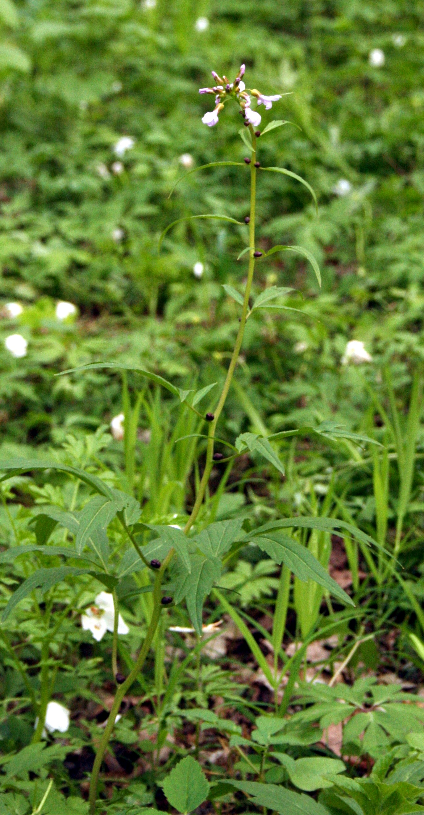 Dentaria bulbifera